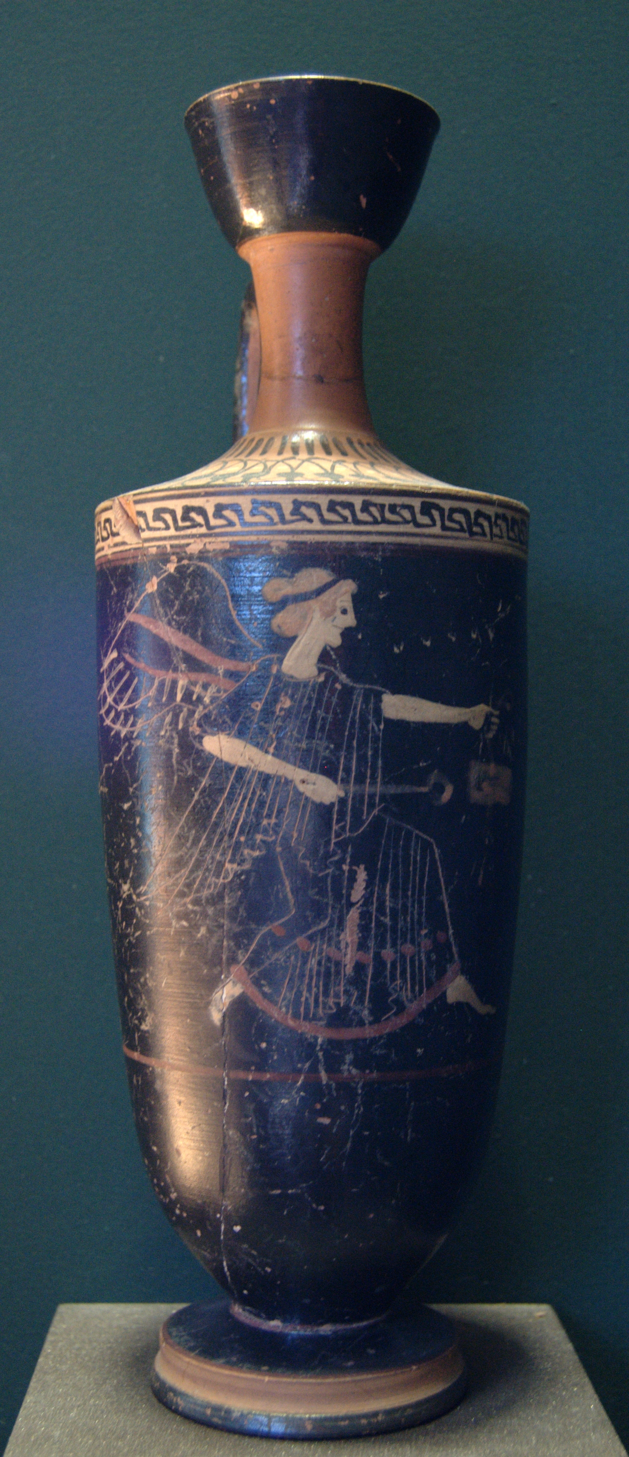 Iris. Attic lekythos with decoration in superposed colours (Six's technique), ca. 500–490 BC. From Tanagra.